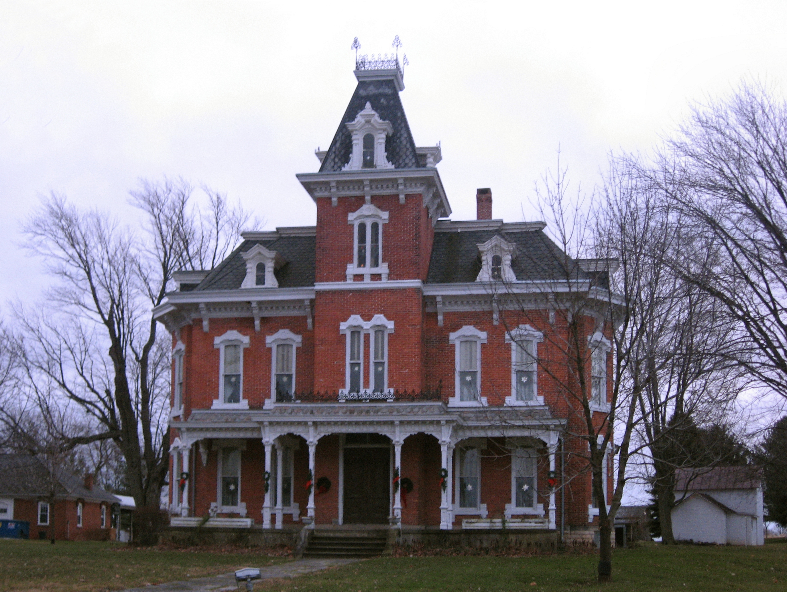 Front of the John Wright Mansion, located along State Route 113 northeast of Bellevue in Lyme Township, Huron County, Ohio, United States. Built in 1881, it is listed on the National Register of Historic Places.